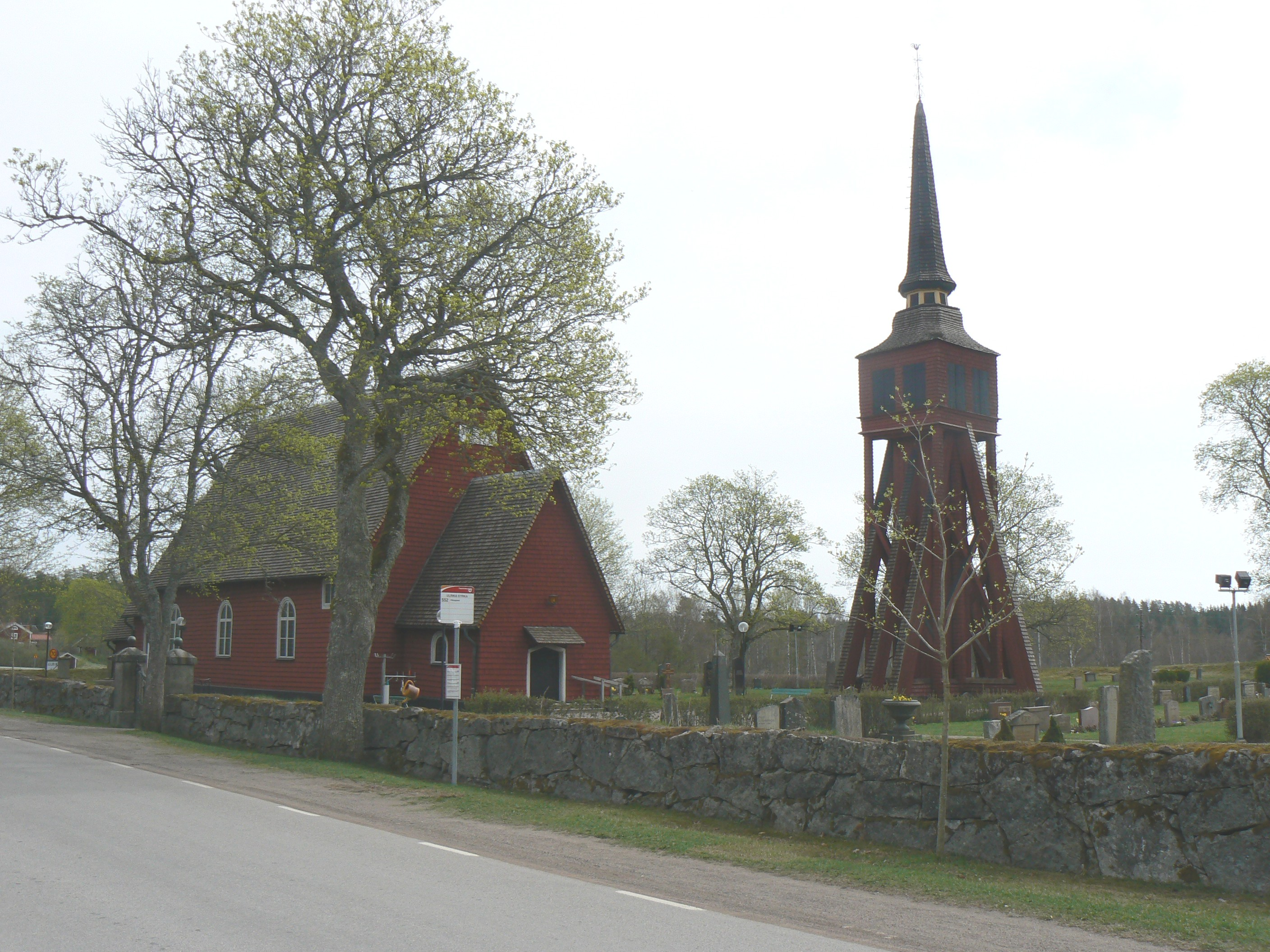 Ulrika church in Östergötland, Sweden. Photo taken from northwest, also including the church's belltower. (The light/colour balance of this photograph was slightly adjusted by its creator in Microsoft Photo Editor in 2009-05-01.)